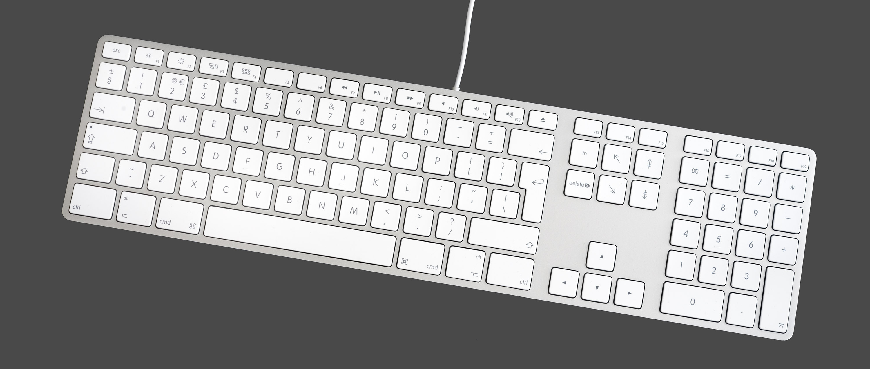 An Apple A1243 Wired Keyboard with Numeric Keypad (British)